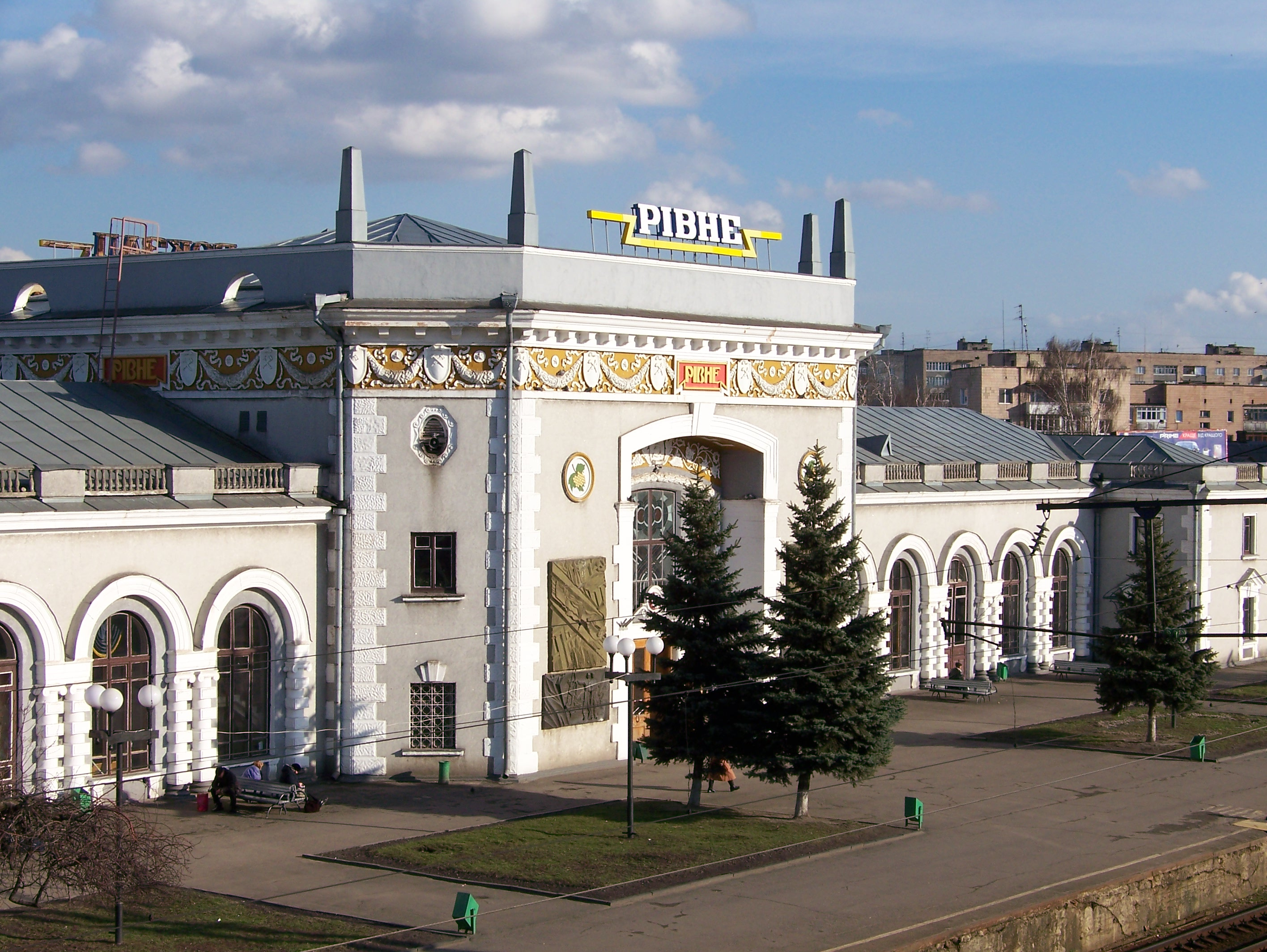 This image was copied from en. The original description was: Train Station